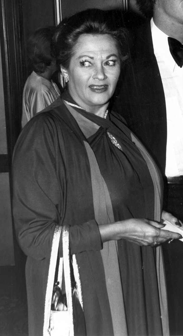 Photo of actress Yvonne De Carlo